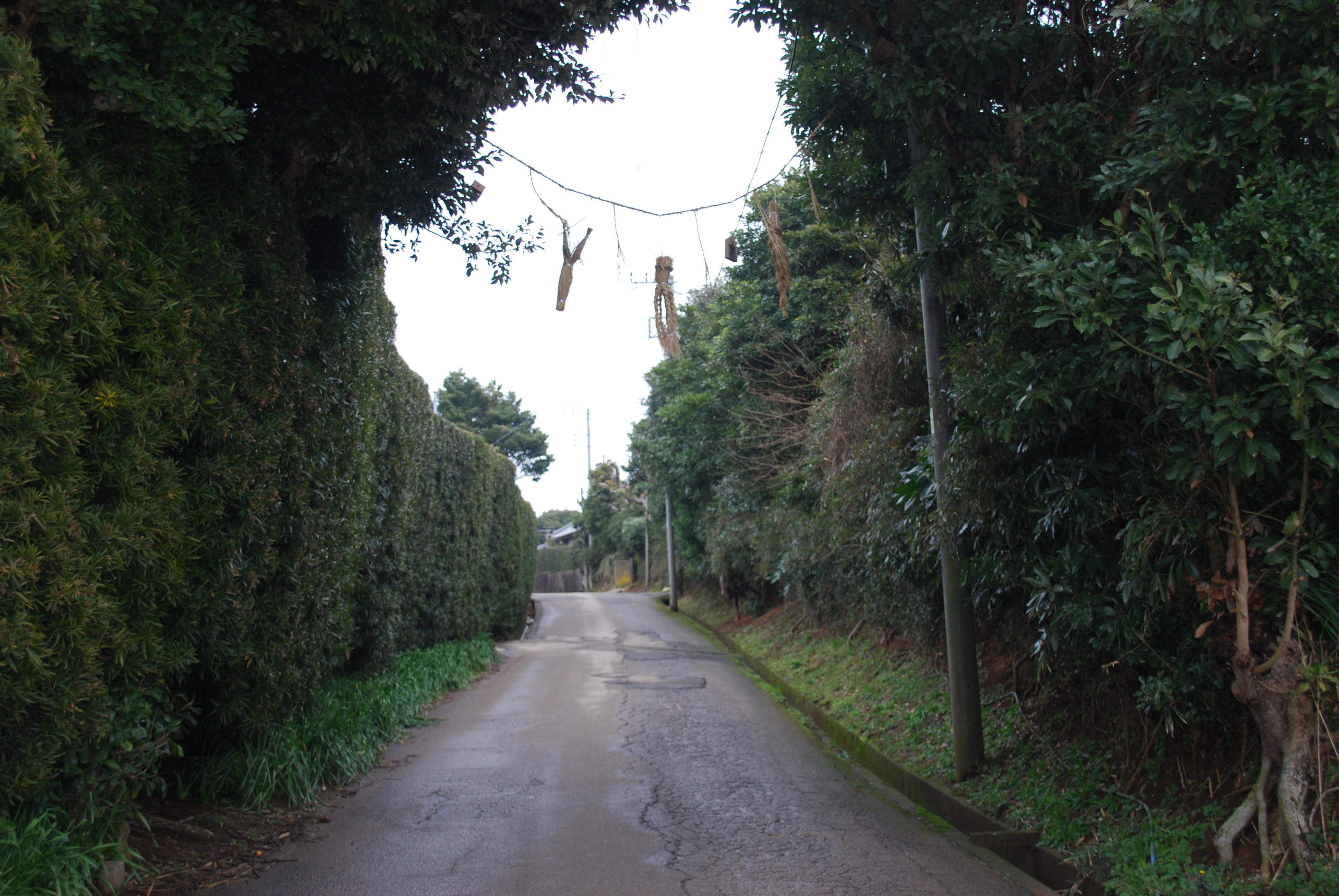 Tsuji-kiri,Obama-cho,Choshi-city,Japan